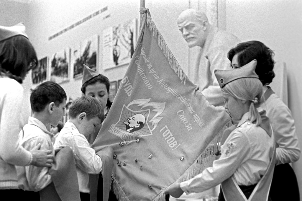 “Little Octobrists becoming pioneers”. Little Octobrists becoming pioneers. The Central Lenin Museum (Lenin Museum currently).